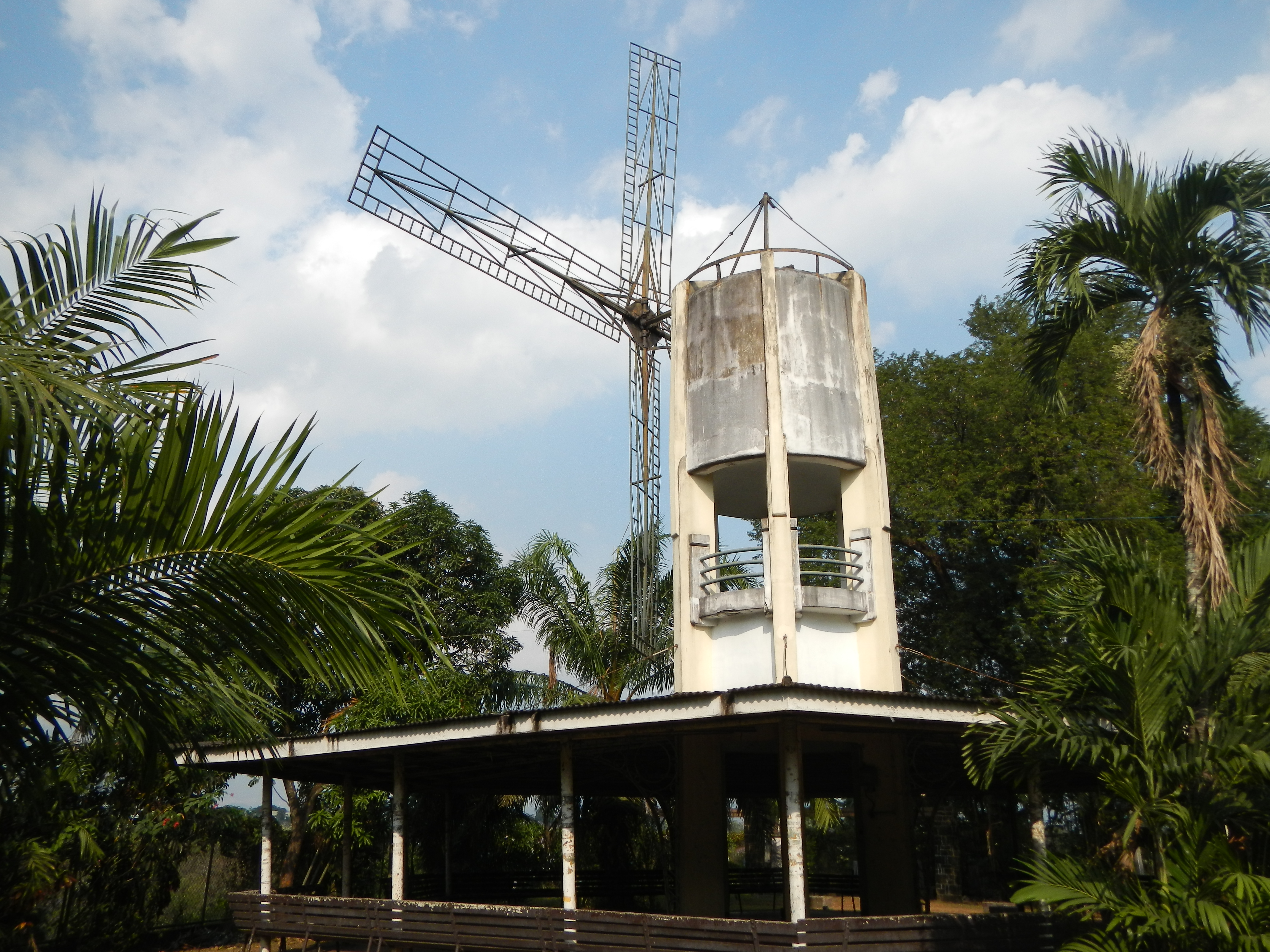 Photos of Balara Filters Park (Nature And Wildlife) - in Katipunan Extension, Diliman, Quezon City - or the Manila Water Lakbayan Cente is a 60 hectare property almost as big as Rizal Park dotted with vintage structures and statuary such as : an Italian Style Chapel, the Orosa Hall, Escoda Hall Swimming Pool, Balara Filtration Windmill, Children's Park, the MWSS Balara Water Reservoir and Filtration Plant, Water Drinking Treatment Plant this is part of the List of Art Deco architecture and List of parks in Manila. This park is managed and is under the exclusive jurisdiction of Metropolitan Waterworks and Sewerage System that is, Manila Water Water Delivery Sewerage [1] and Sanitation [2] at the Balara Treatment Plant, and also under Manila Water and finally by